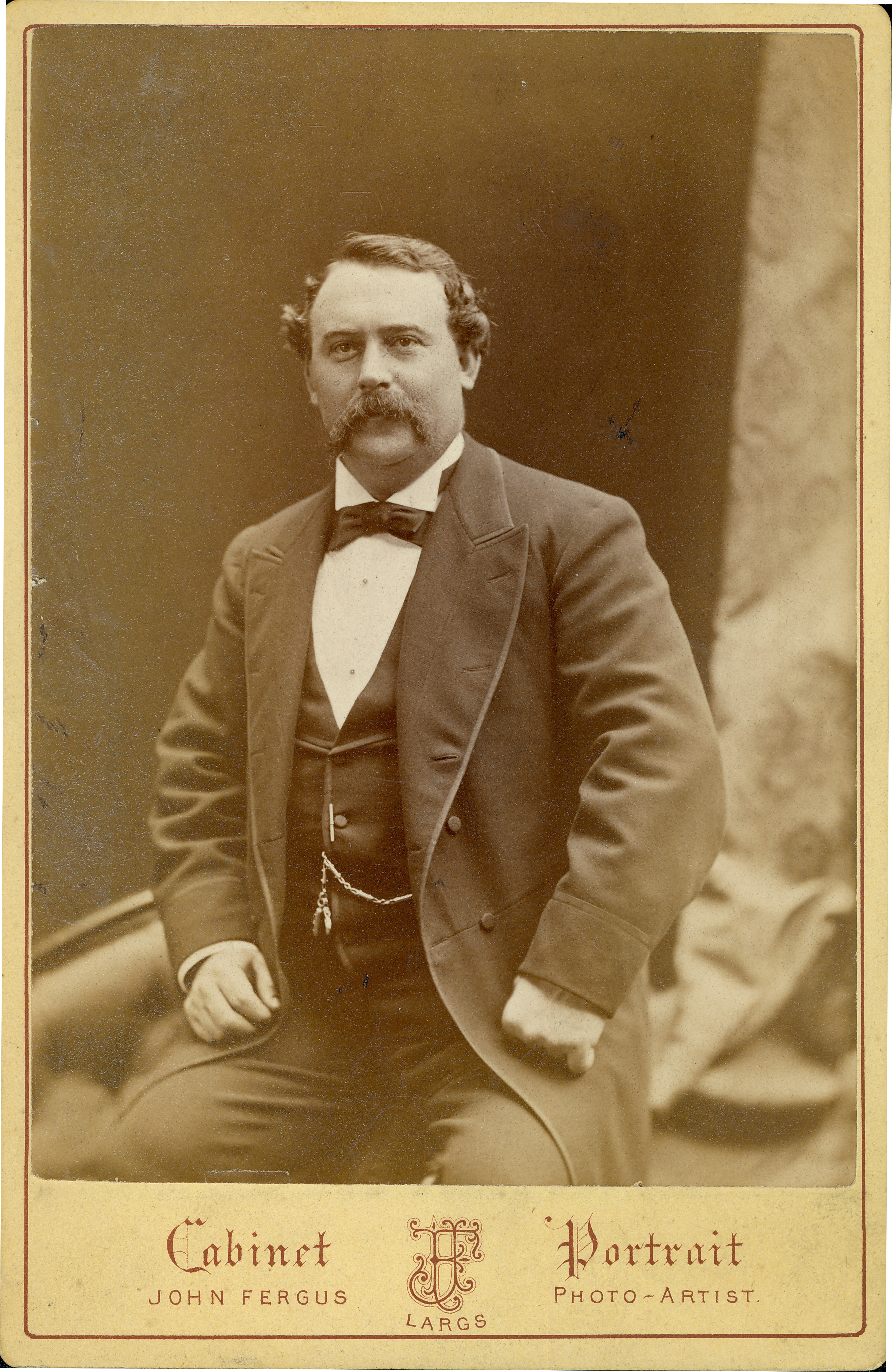 Nearly full-length portrait of John G. Wright. He is seated and wearing a suit, vest, and bow tie, and turned very slightly to the left. "Cabinet JOHN FERGUS" and "Portrait PHOTO-ARTIST" (printed below image). Title: John G. Wright, Colonel, 51st New York Infantry, Brevet Brigadier General (Union).